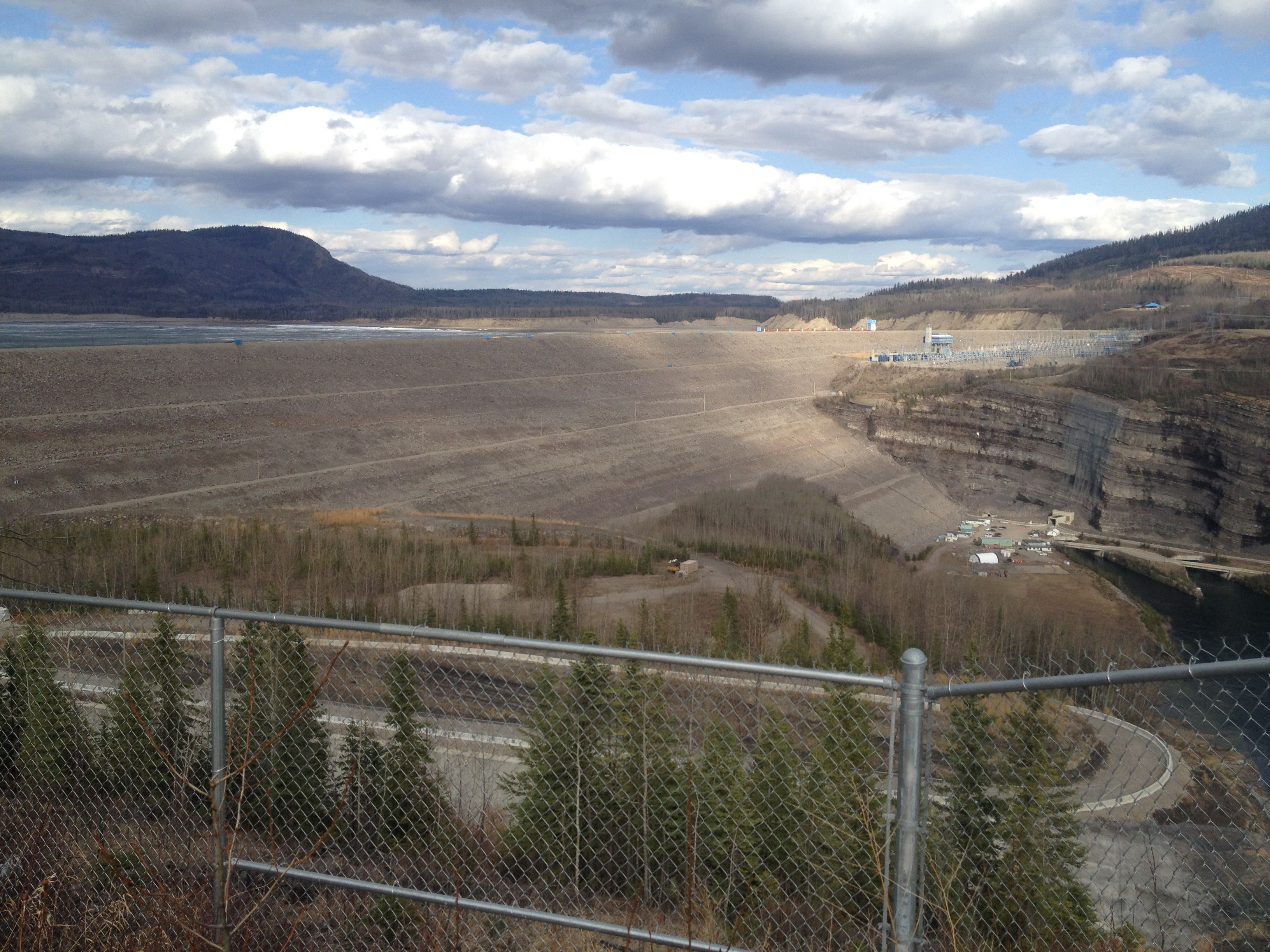 A picture of the WAC Bennett Dam near Hudson's Hope, BC. Taken from the viewpoint on the right bank of the Peace River